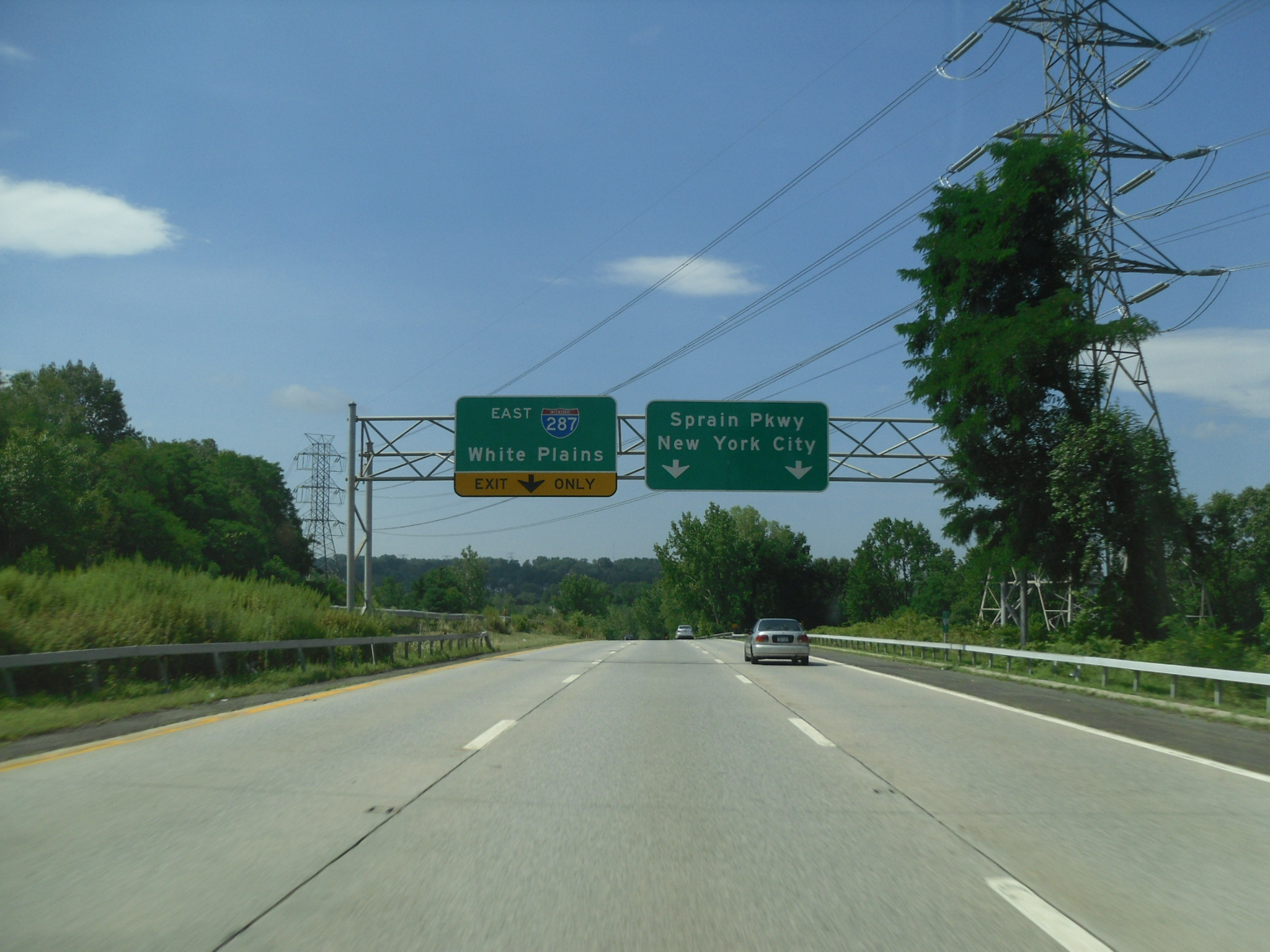 Sprain Brook Parkway southbound at the junction with the Cross-Westchester Exprewssway (Interstate 287) in Elmsford.